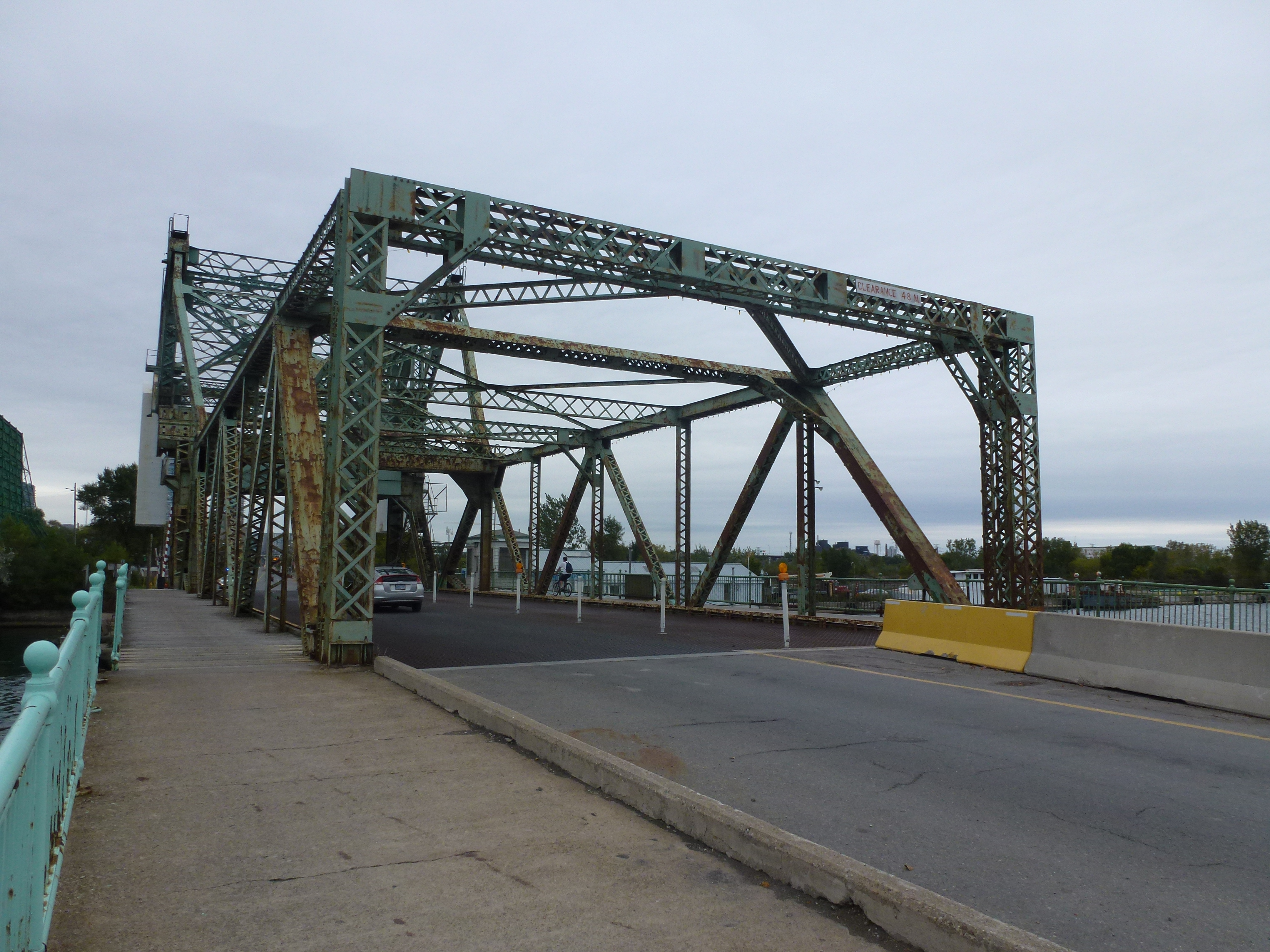 The south end of the Cherry Street Strauss Trunnion Bascule Bridge, a historic bridge over Toronto Harbour Ship Channel, in Toronto, Ontario.